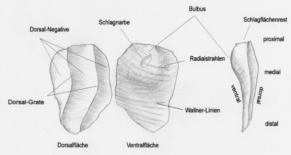 terminology of a flint flake (archaeology)